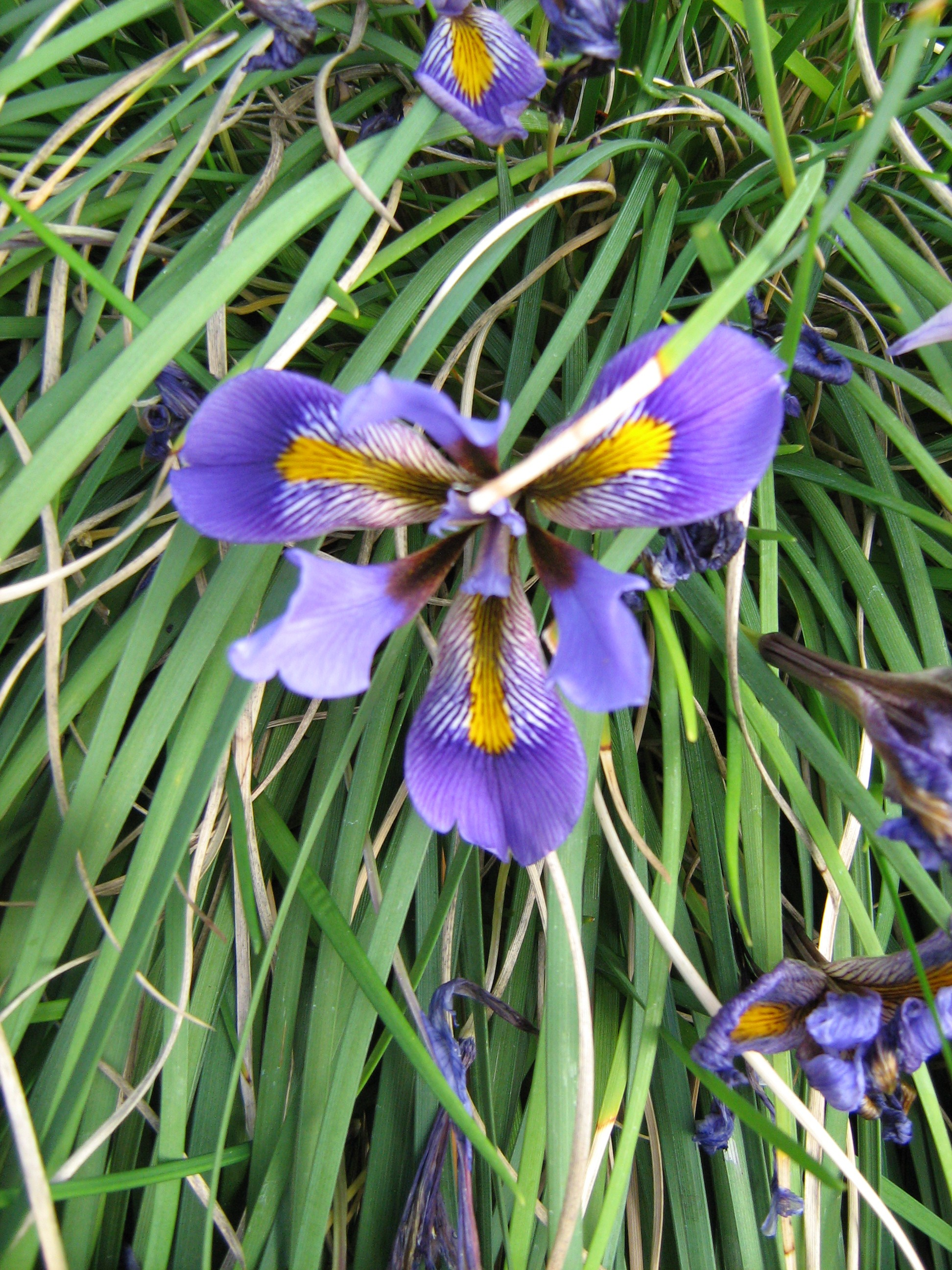 Iris unguicularis in the botanic garden of Berne